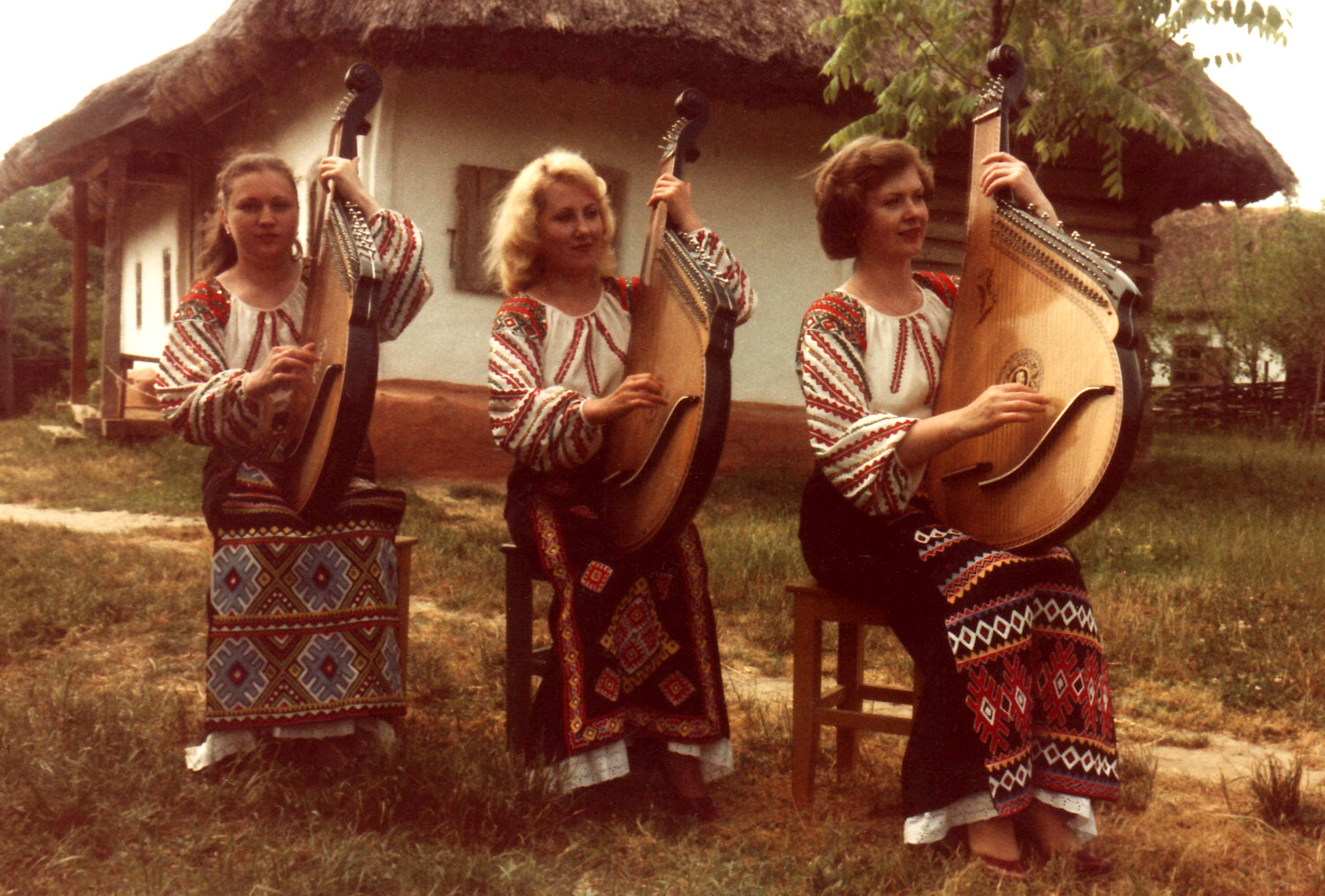 The photo has been shot during the filming of a TV documentary called "Bandura - Ukrainan laulava puu" (Bandura - The Singing Tree of Ukraina) produced by Yleisradio TV 1 (Finnish Broadcasting Union) in 1981